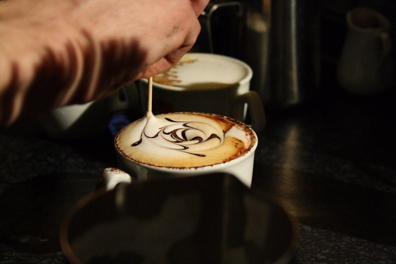 Making of Latte art of cappuccino on Coffee Right in Brno, Czech Republic.